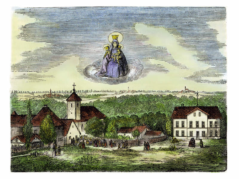 Church St. Anna, München - Harlaching, the city of Munich in the background.